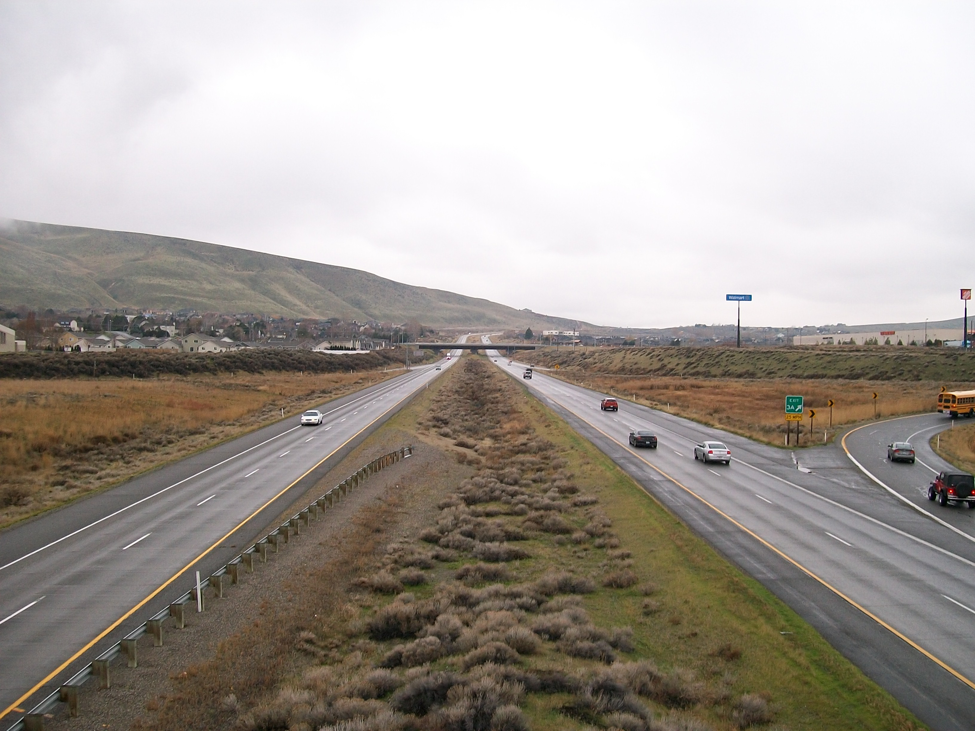 Keene Road bridges over Interstate 182 in Richland, Washington.